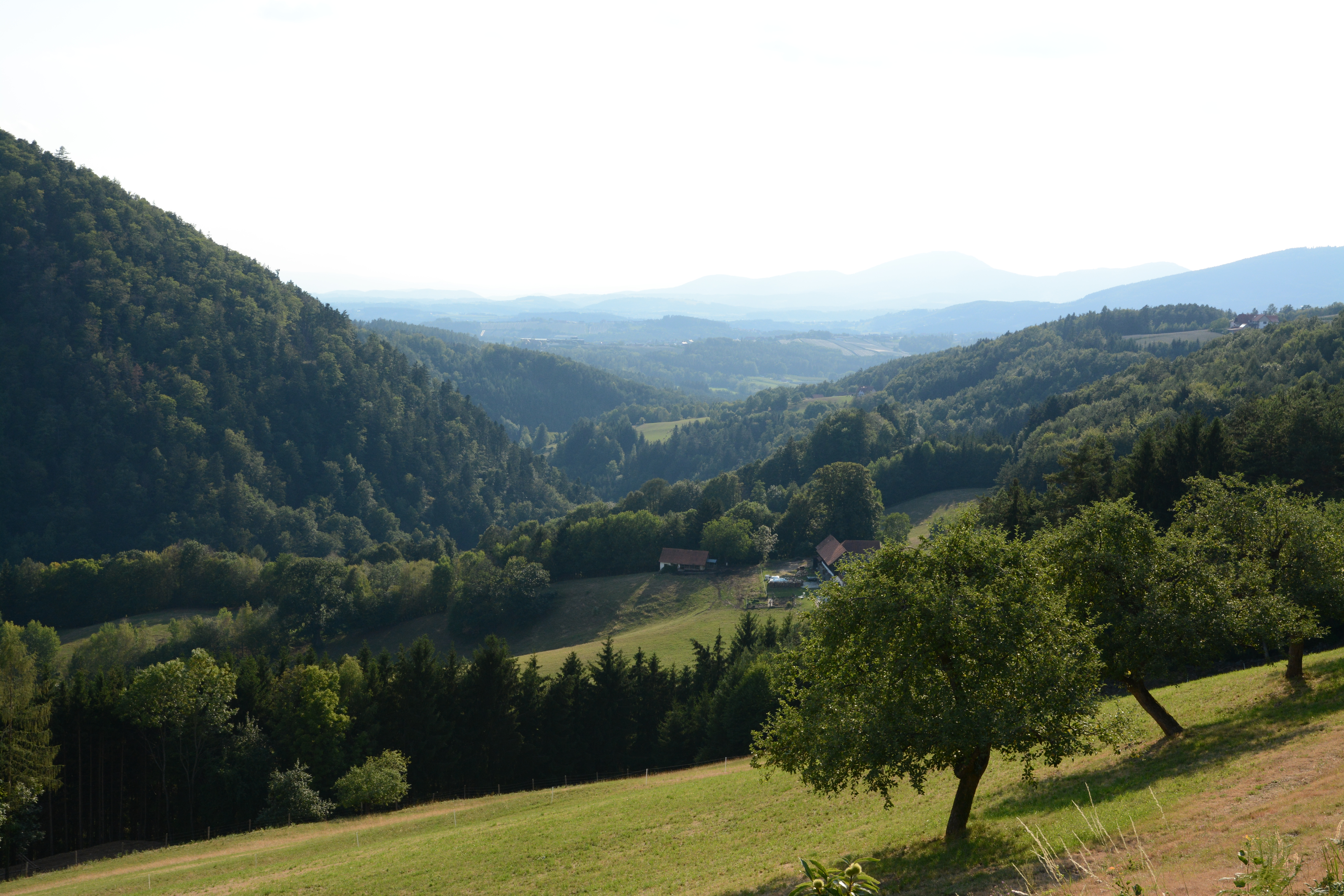 Stubenbergklamm